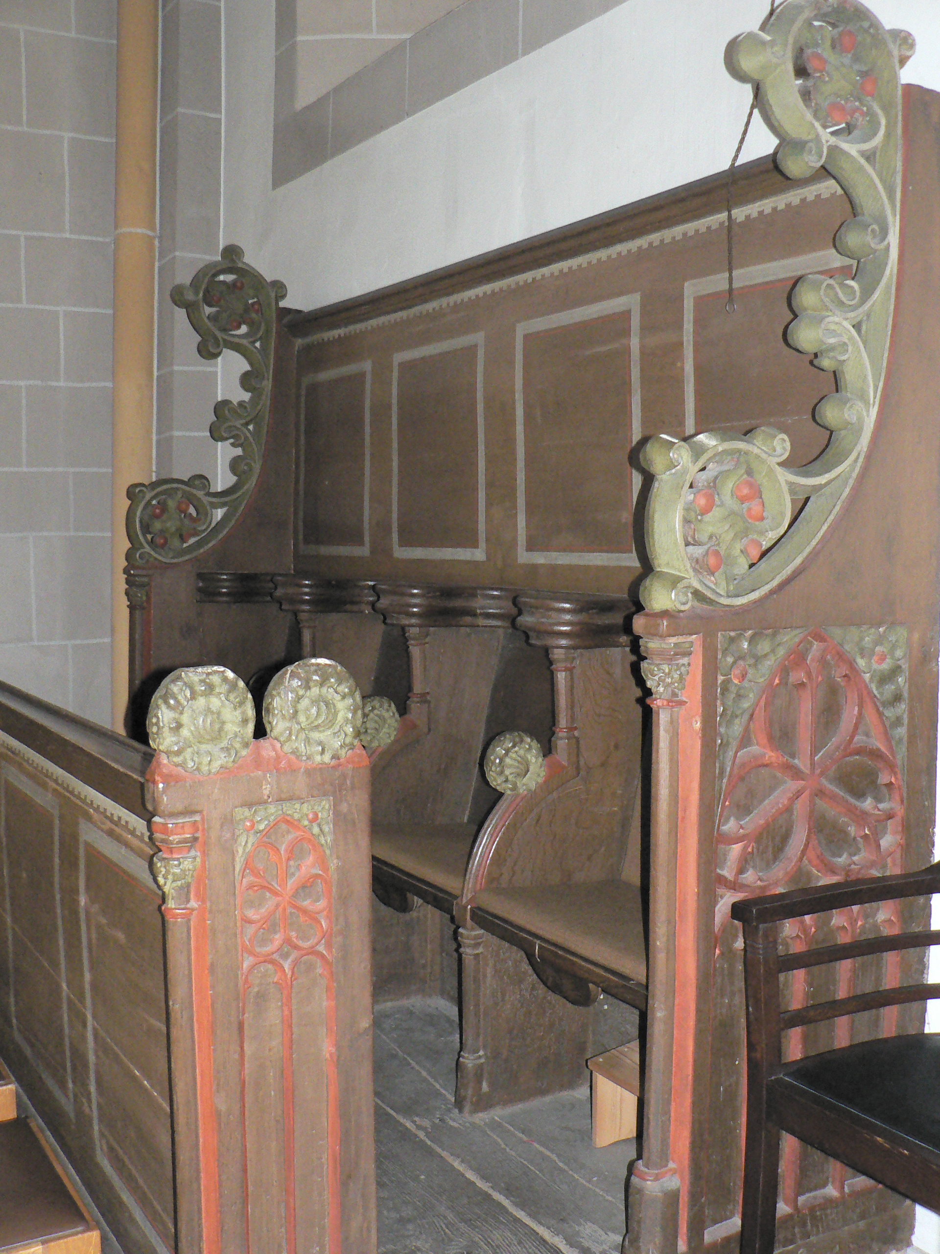 own file